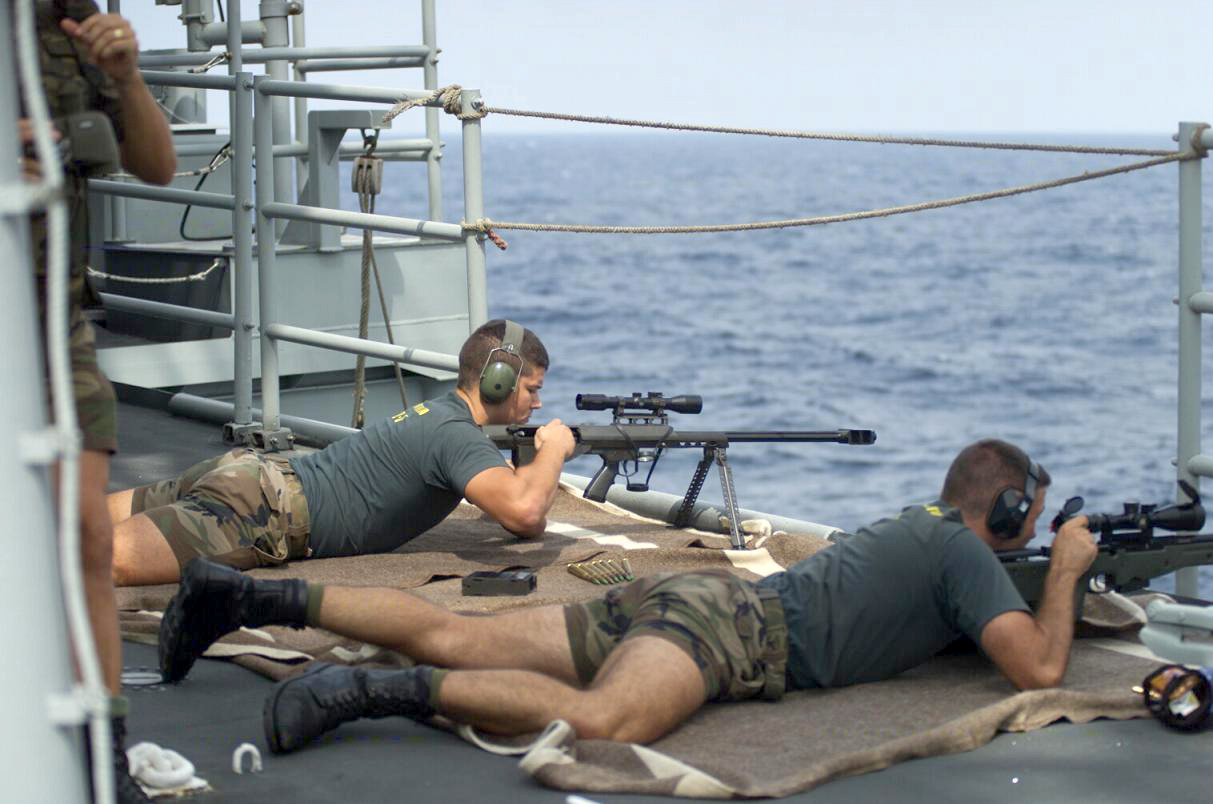 Gulf of Aden (Dec. 9, 2002) -- Spanish Sailors aboard the Santa Maria-class Frigate Navarra (F-85) man provide cover for boarding teams, during a hostile boarding of the North Korean vessel, So San. So San attempted to evade capture, forcing Navarra to fire warning shots across its bow. Special Forces troops then conducted a hostile boarding by helicopter and small boat. The boarding team later found 15 disassembled Scud missiles concealed by bags of cement, bound for Yemen. U.S. military experts deployed in the area were called in to further examine the cargo. U.S. Intelligence sources had been tracking the vessel since it departed a North Korean port in mid-November. Photo released by Spanish Defense Ministry.